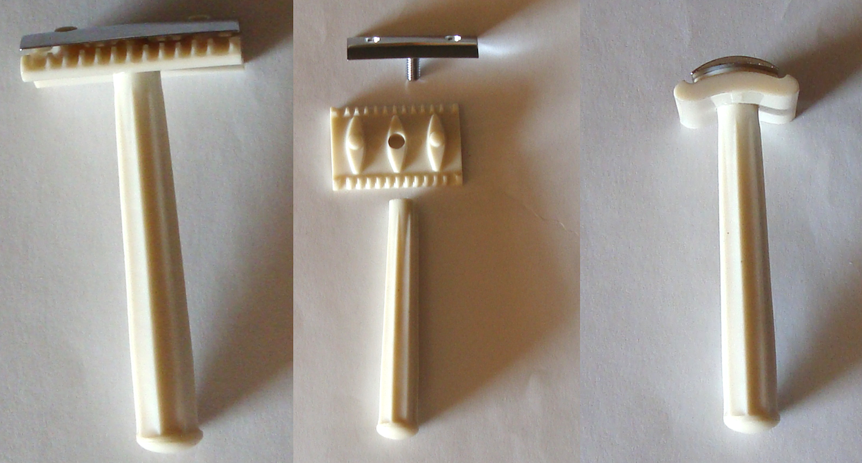 A 'Knockout' three-piece safety razor probably from the 1930s, '40s, or '50s